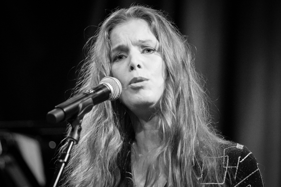 Rebekka Bakken at Victoria Teater. The concert was part of Oslo Jazzfestival and took place on 19. August 2017 in Oslo. Lineup: Rebekka Bakken (vocal), Børge Petersen-Øverleir (guitar), Jonny Sjo (bass guitar) and Rune Arnesen (drums).